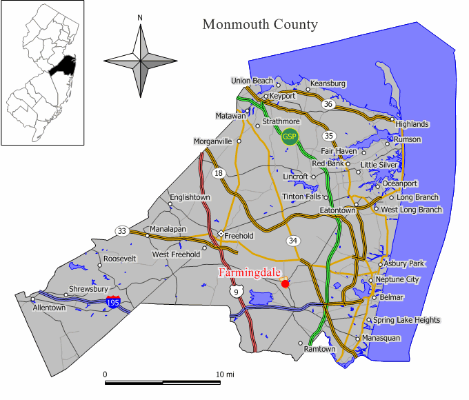 Source: Jim Irwin